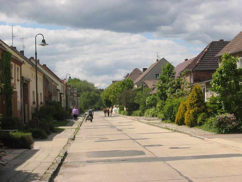 Village-street Kuhlowitz. Kuhlowitz is an incorporated part of the town Belzig in Brandenburg, Germany.